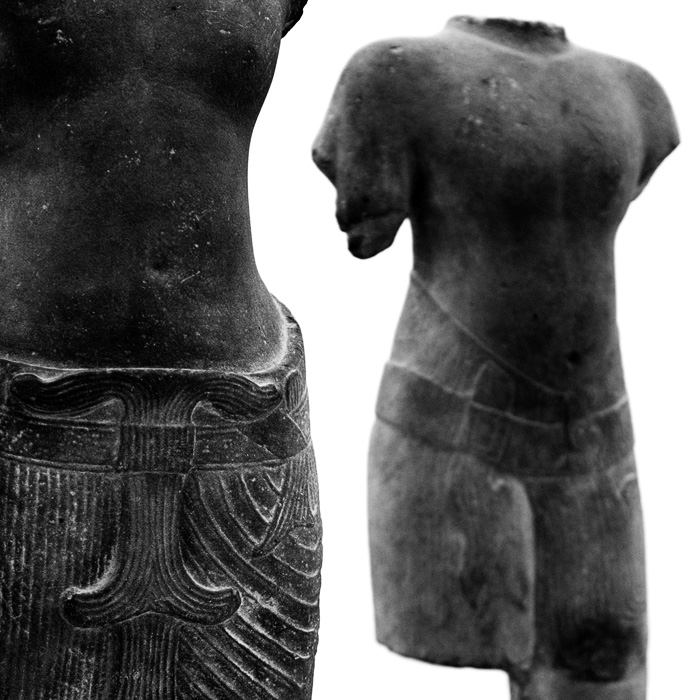 khmer art at Museumsinsel Hombroich, Germany own photo feb 26, 2005 photo: nomo/michael hoefner